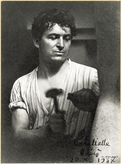 Wäinö Aaltonen at work in 1925.